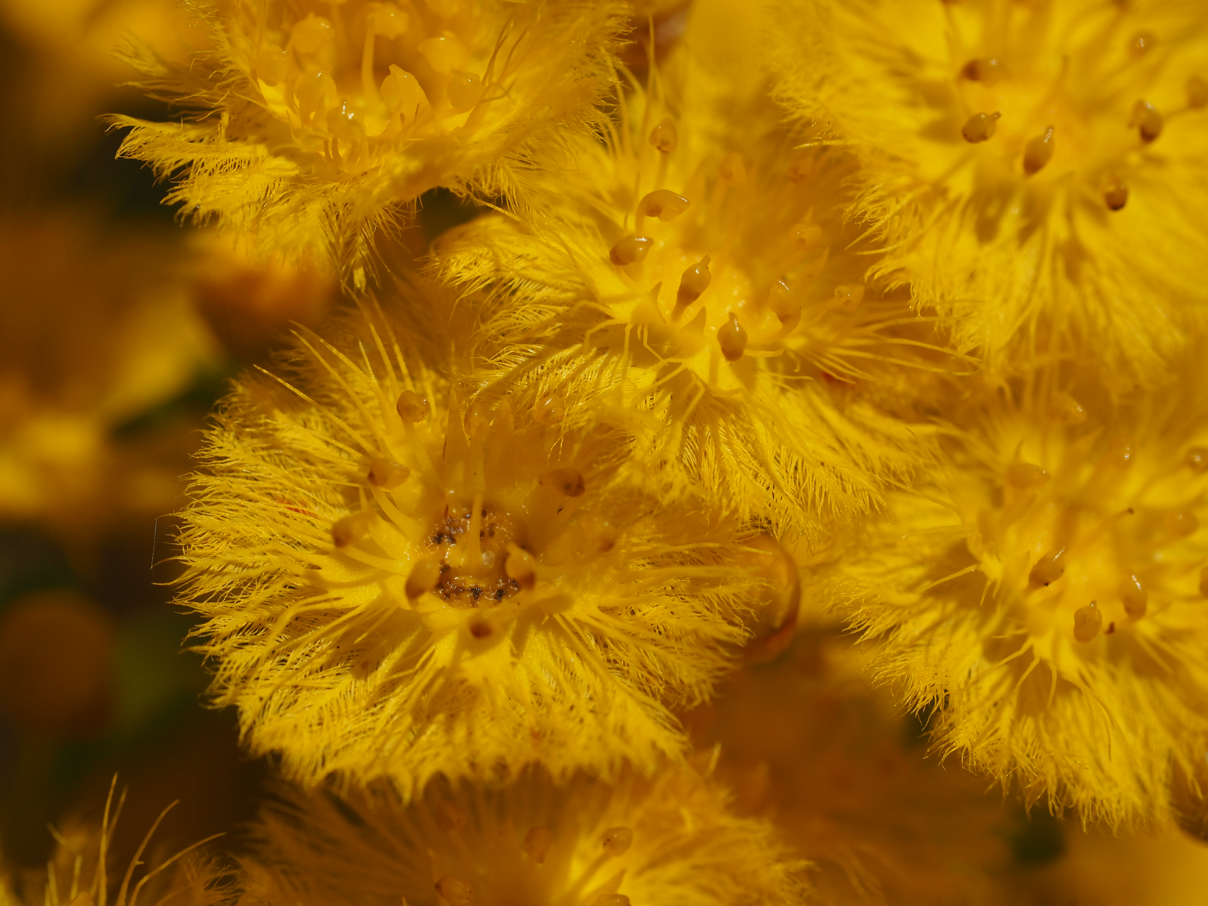 Verticordia galeata growing in Kings Park, Perth